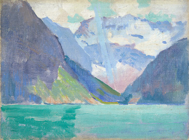 Arthur Wesley Dow (1857–1922): View of Lake Louise, Alberta, Canada, oil on canvasboard, 6.25" x 8.75", 1919